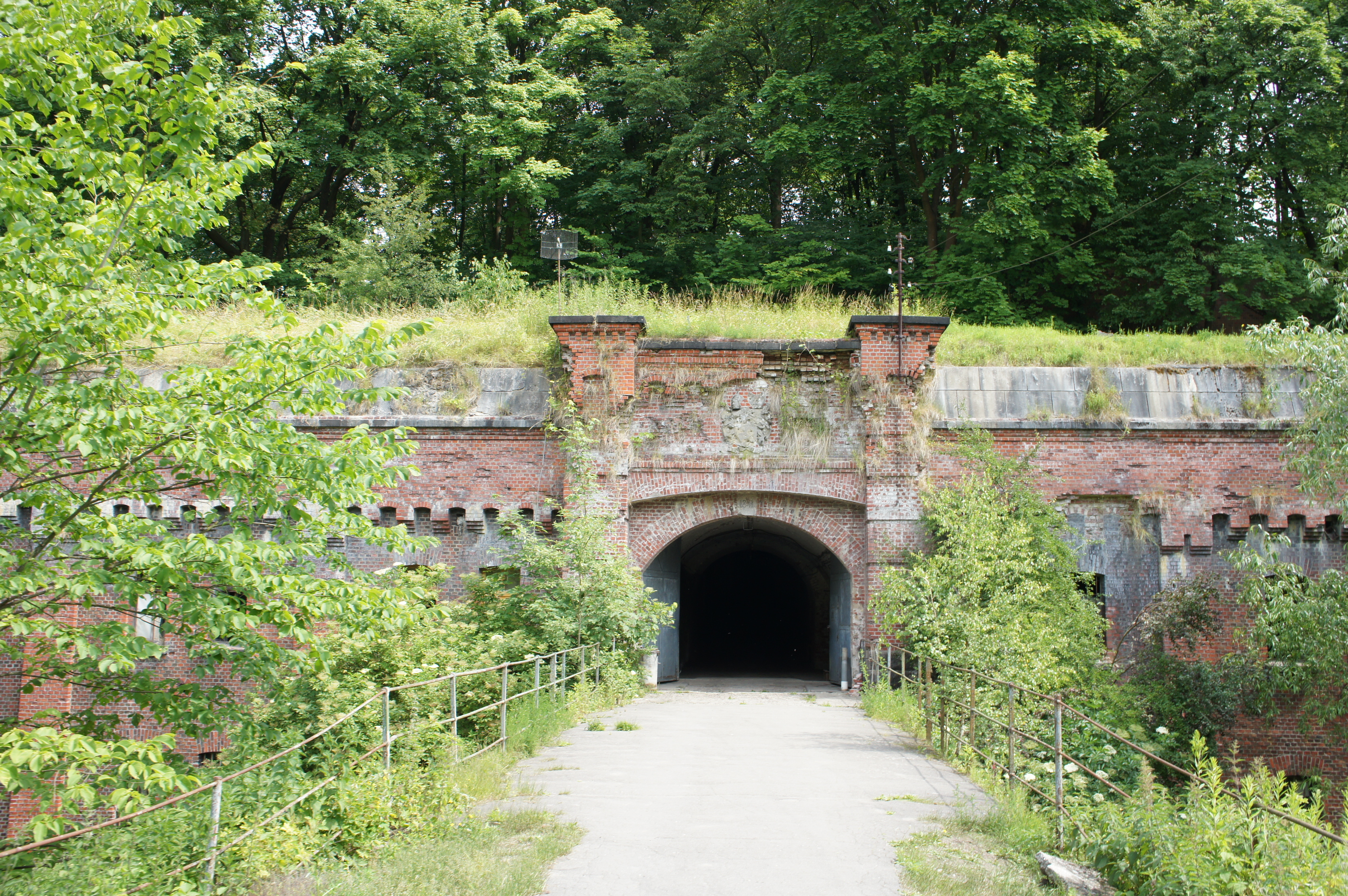 Fort 1 (Stein am Lauther Muhlenteich) in Kaliningrad